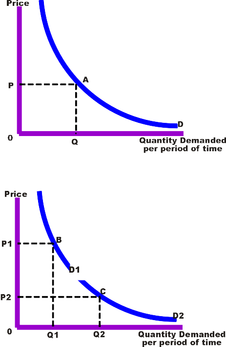 price discrimination